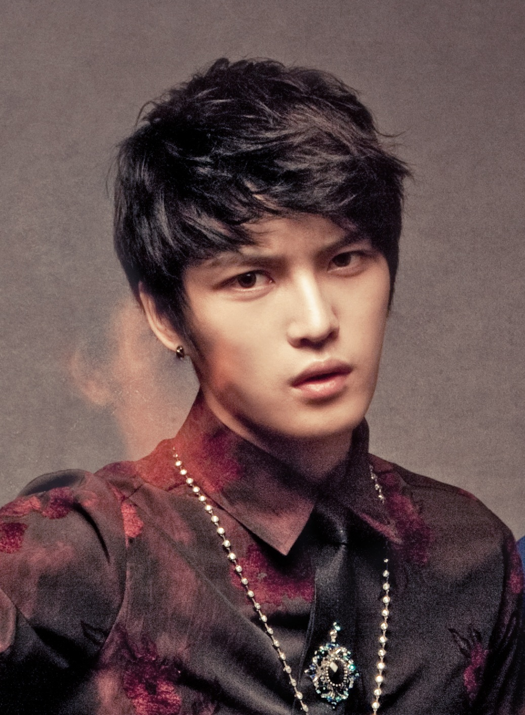 Kim Jaejoong